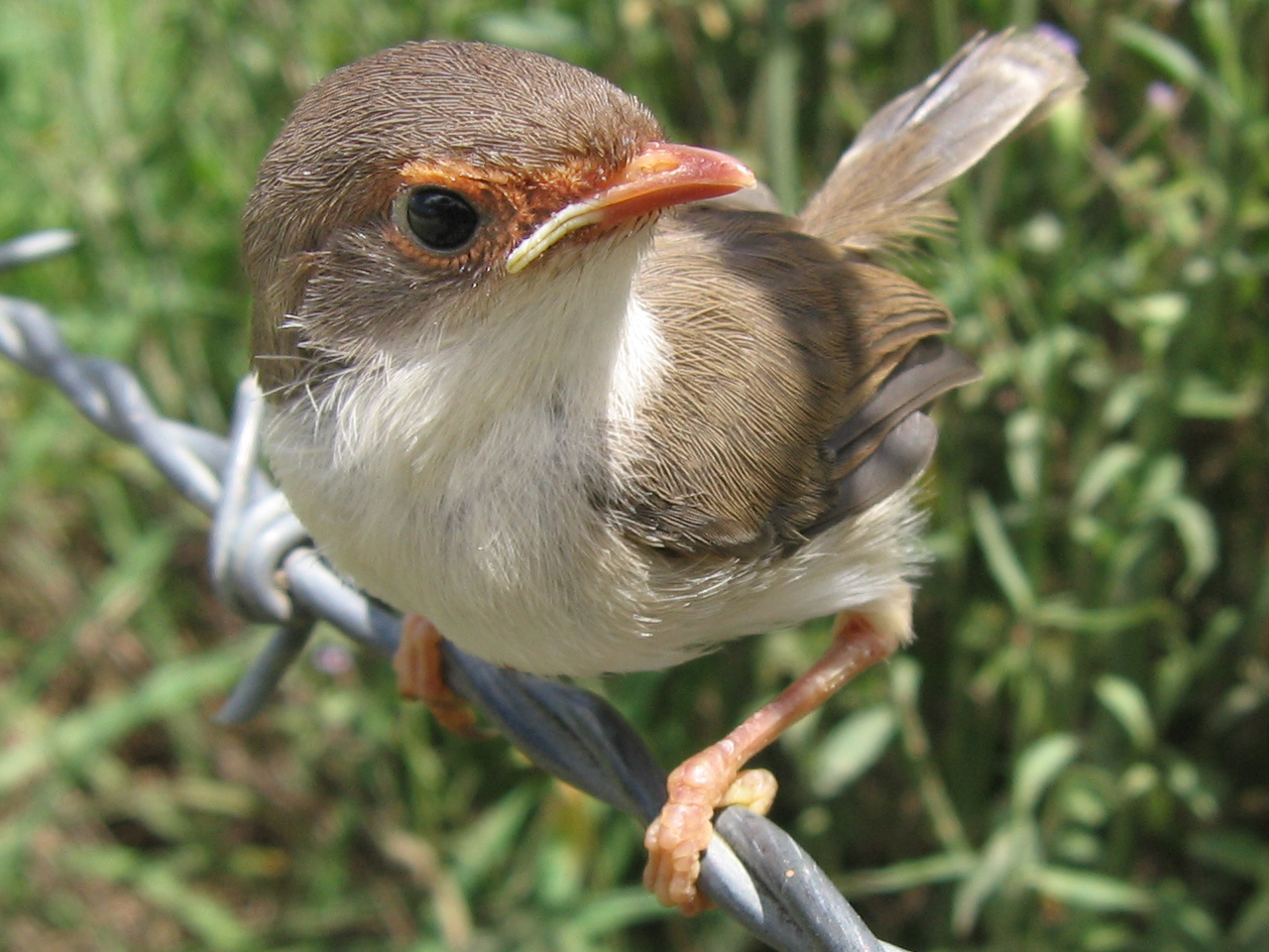 Juvenile female superb fairy-wren (Malurus cyaneus)